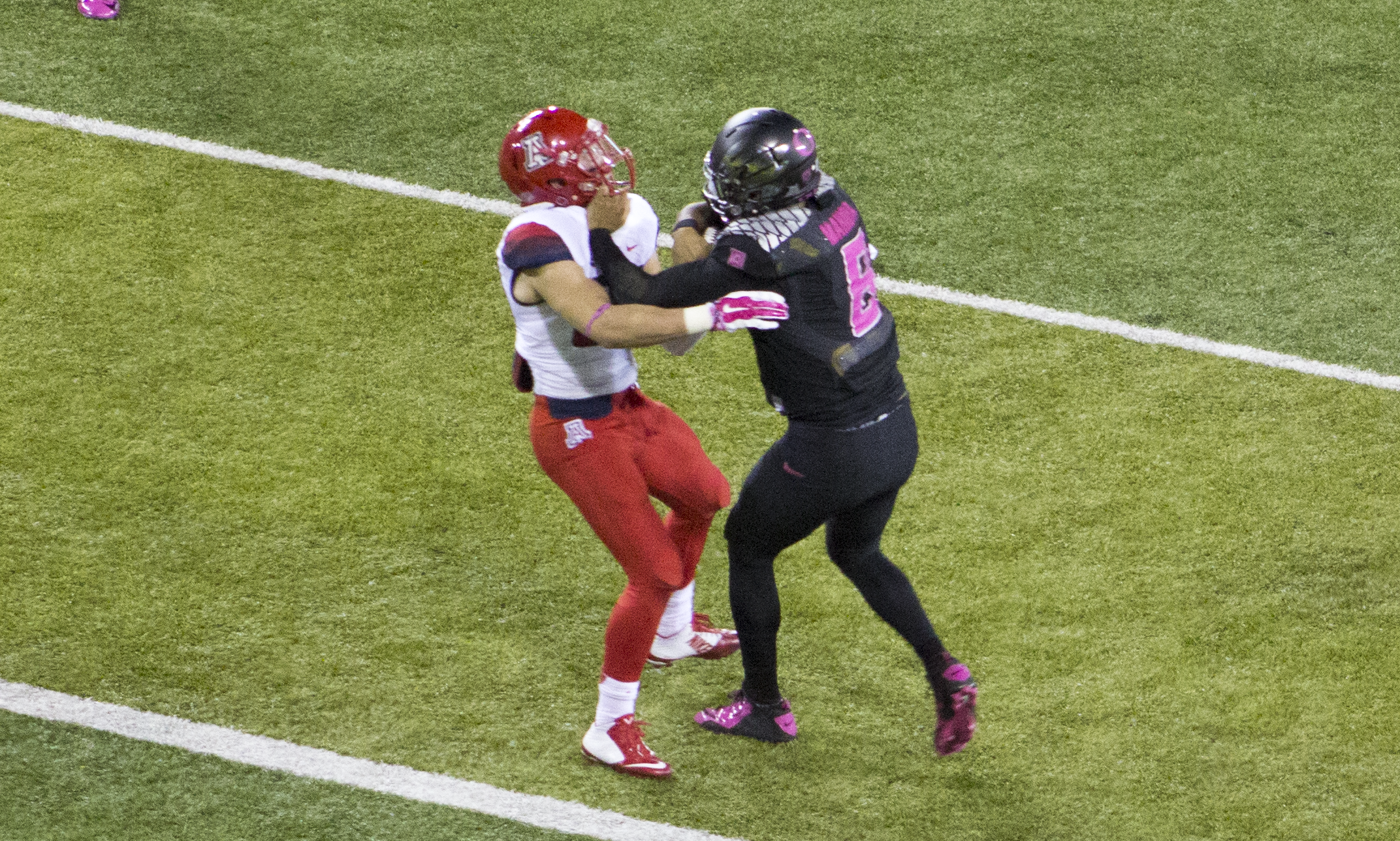 Marcus Mariota stiff arms a defender against Arizona in 2014.